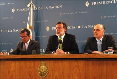 Rafael Bielsa (center), Argentine politician, former Minister of Foreign Relations of Argentina, elected National Deputy for the Autonomous City of Buenos Aires, appointed Ambassador in France by President Néstor Kirchner.